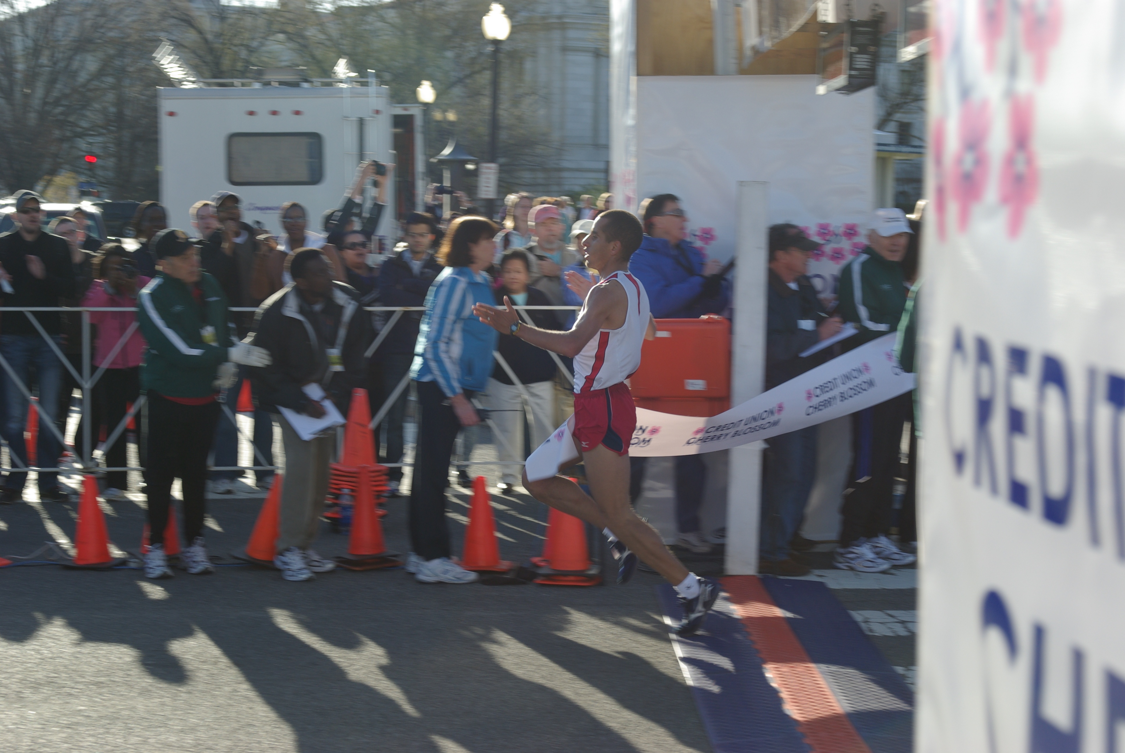 Ridouane Harroufi of Morocco winning the 2009 Cherry Blossom 10-Mile Run in Washington with a time of 45:56.